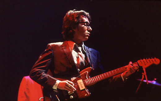 Costello performing in Massey Hall, Toronto, 04/29/78